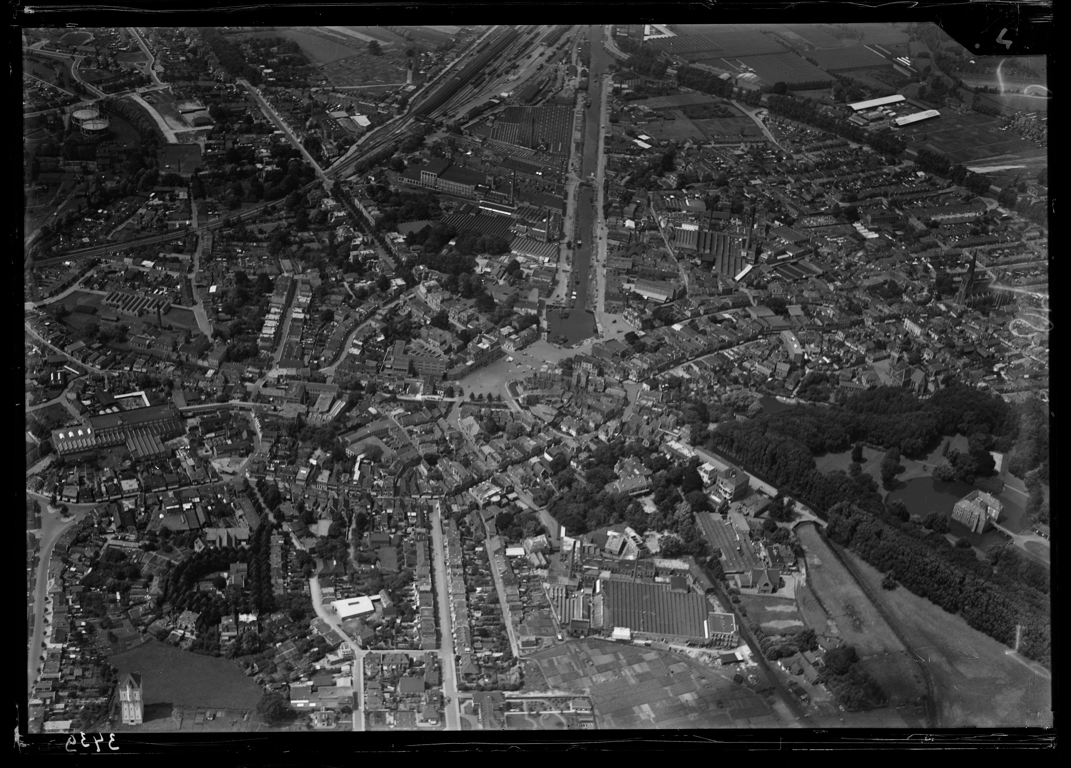 Aerial photograph of Almelo, The Netherlands